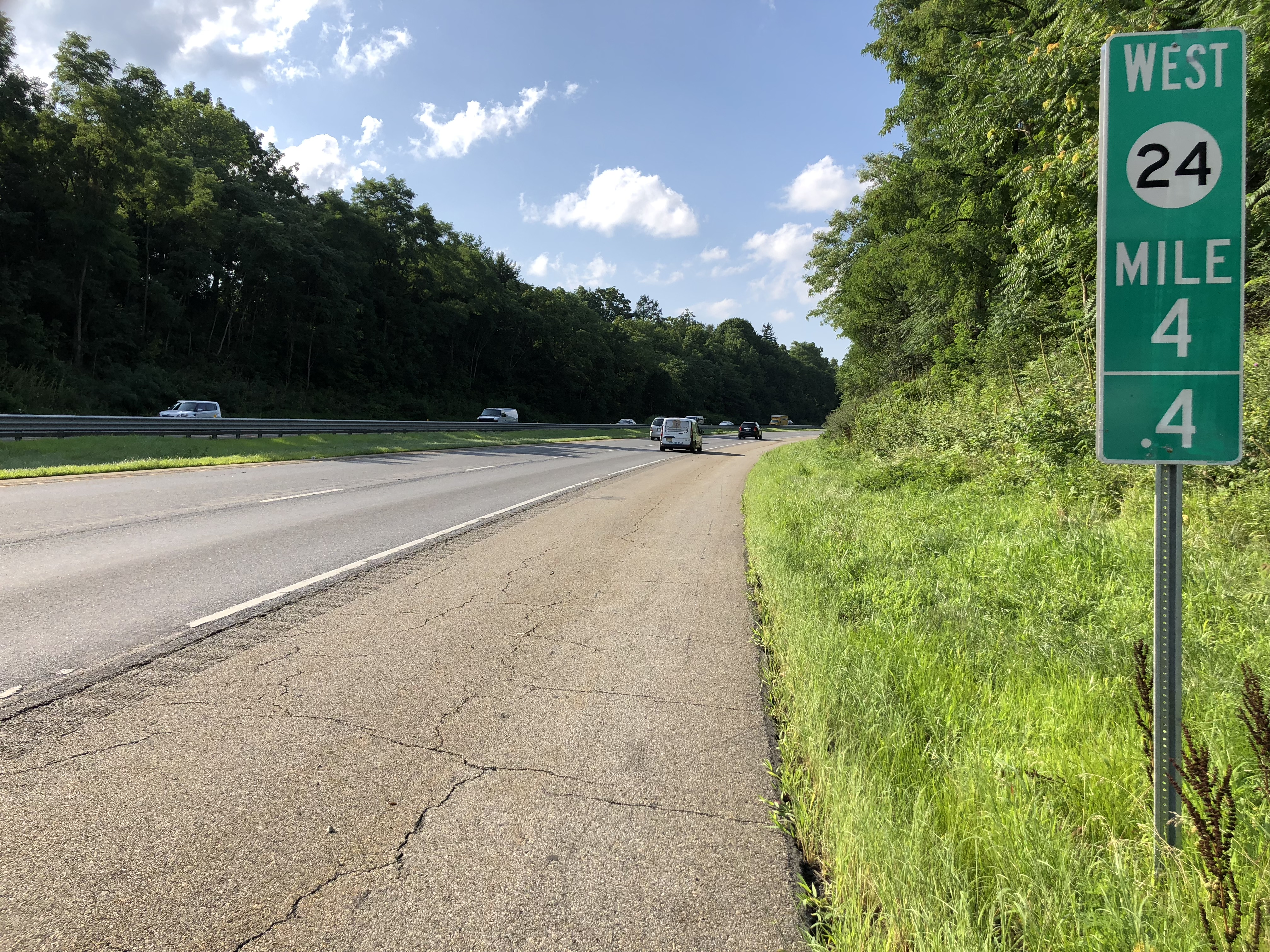 View west along New Jersey State Route 24 between Exit 7 and Exit 2 in Madison, Morris County, New Jersey